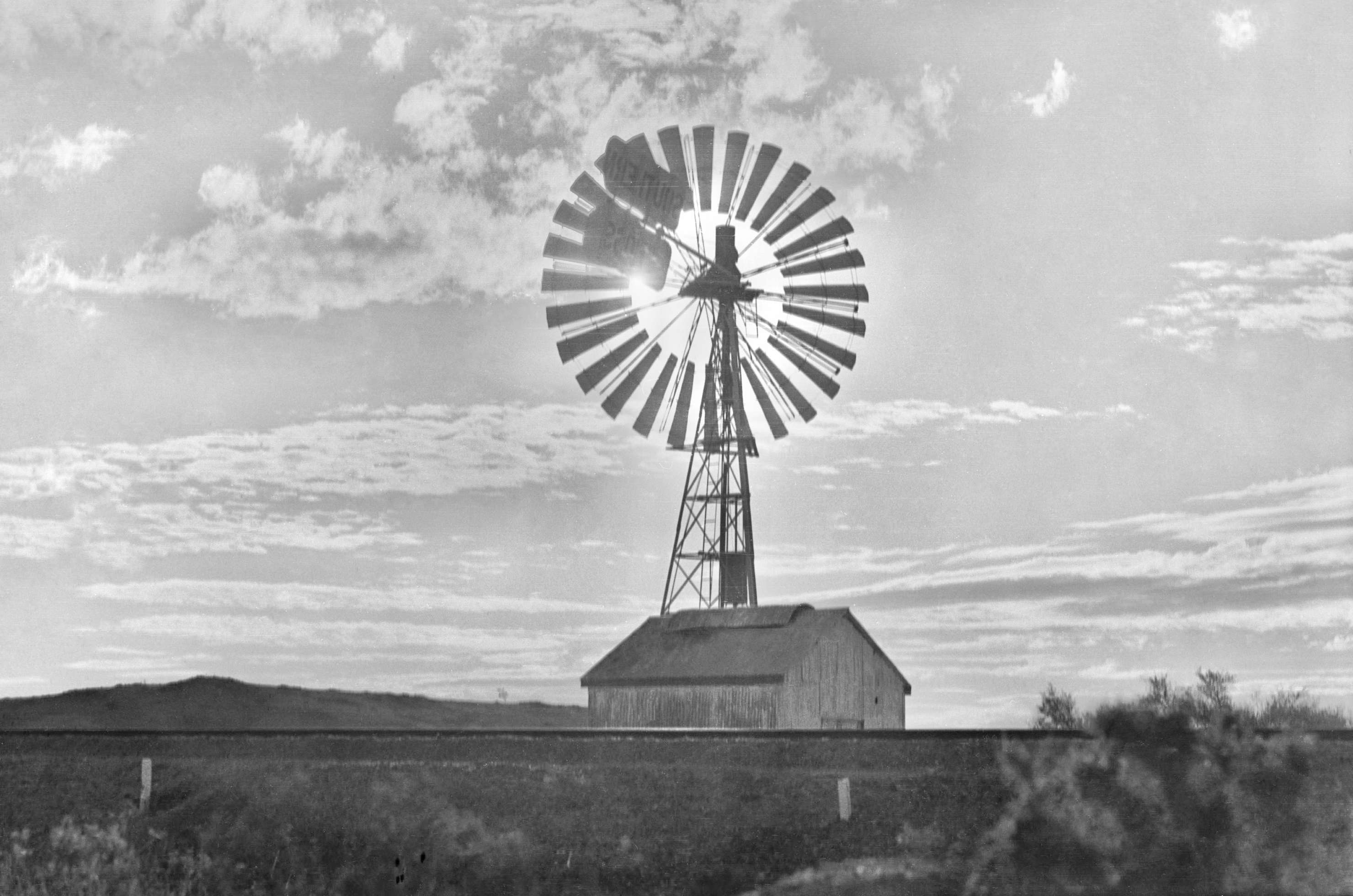 All the photographs by Capt Hurley were taken in 1935 for the 1936 Centenary Year. Note GN05620 - New Parliament House not built. (G Brooks) Hurley's car was a 1935 model Vauxhall. (G Brooks) This windmill was connected to the five-million gallon (about 22-megalitre) railway dam that supplied water for steam locomotives at Beltana. A stone wall was built across Graham's Creek in Beltana to divert water.